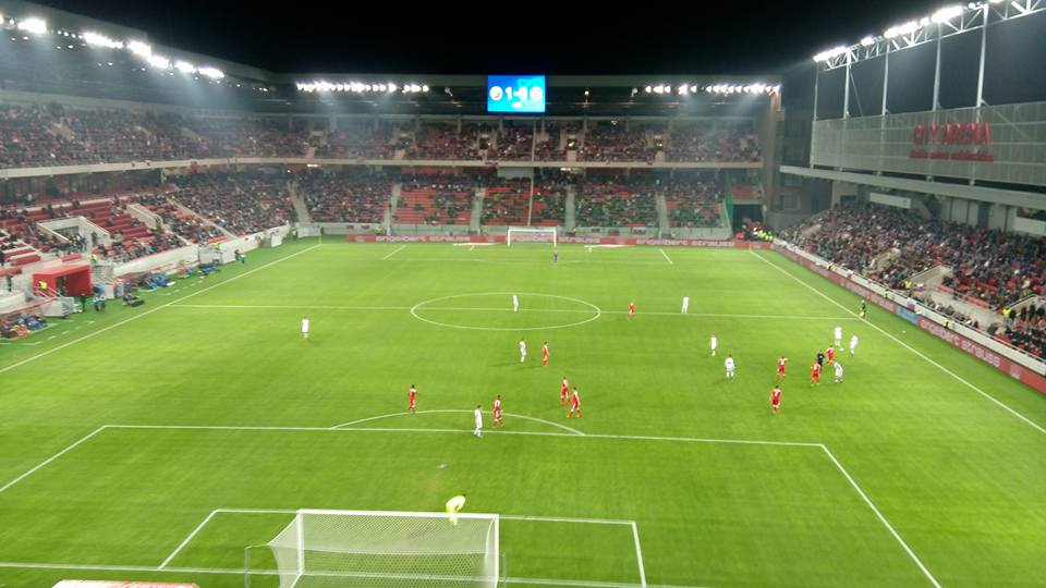 City Arena Trnava